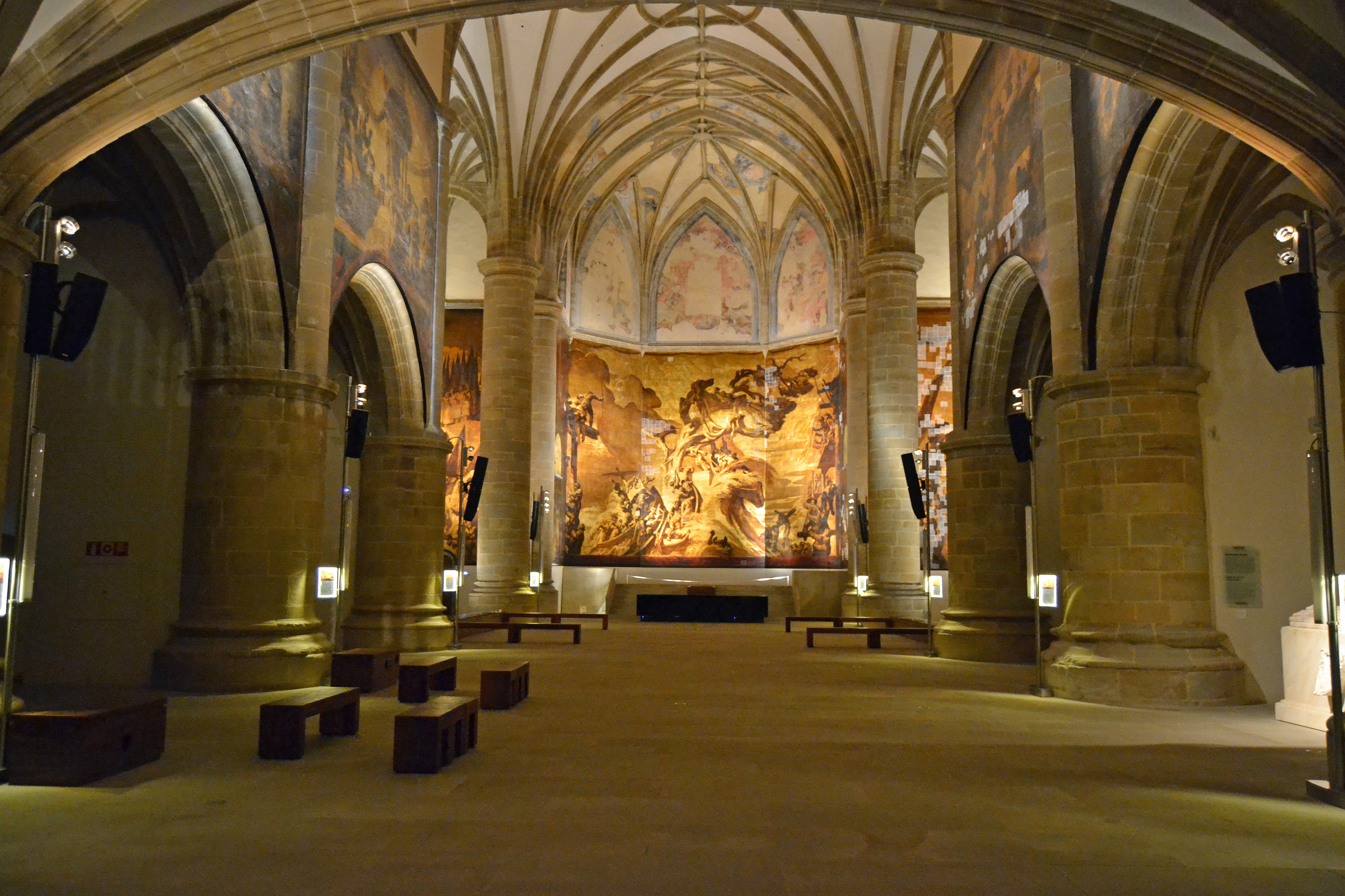 Interior of San Telmo museum's church, Donostia-San Sebastián. Gipuzkoa, Basque Country.